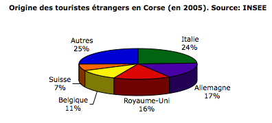 Foreign tourists in Corsica